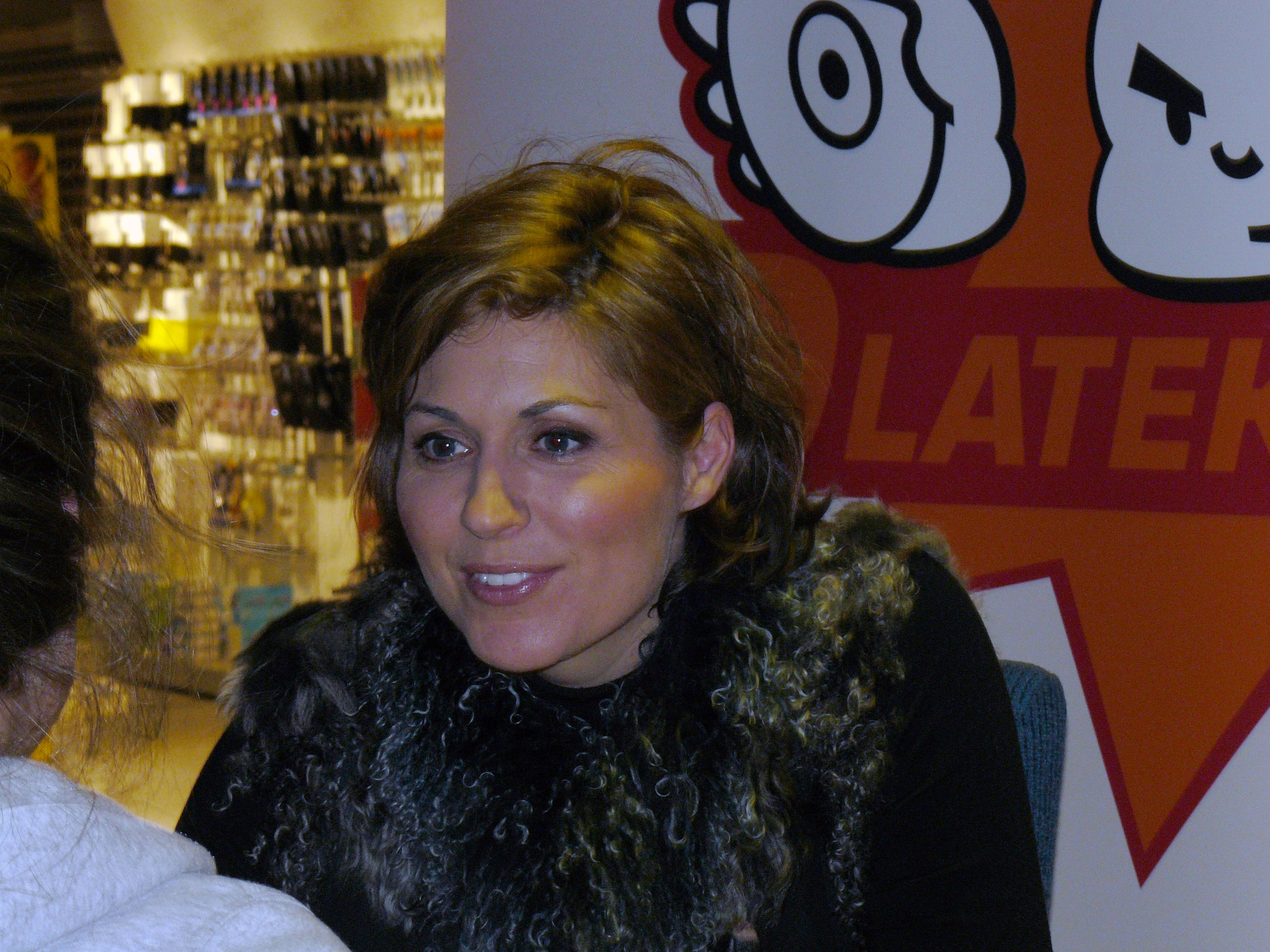 Sissel Kyrkjebø at Strømmen Storsenter December 16th, 2010 - Signing of her latest album, "-- For you" "- til deg"